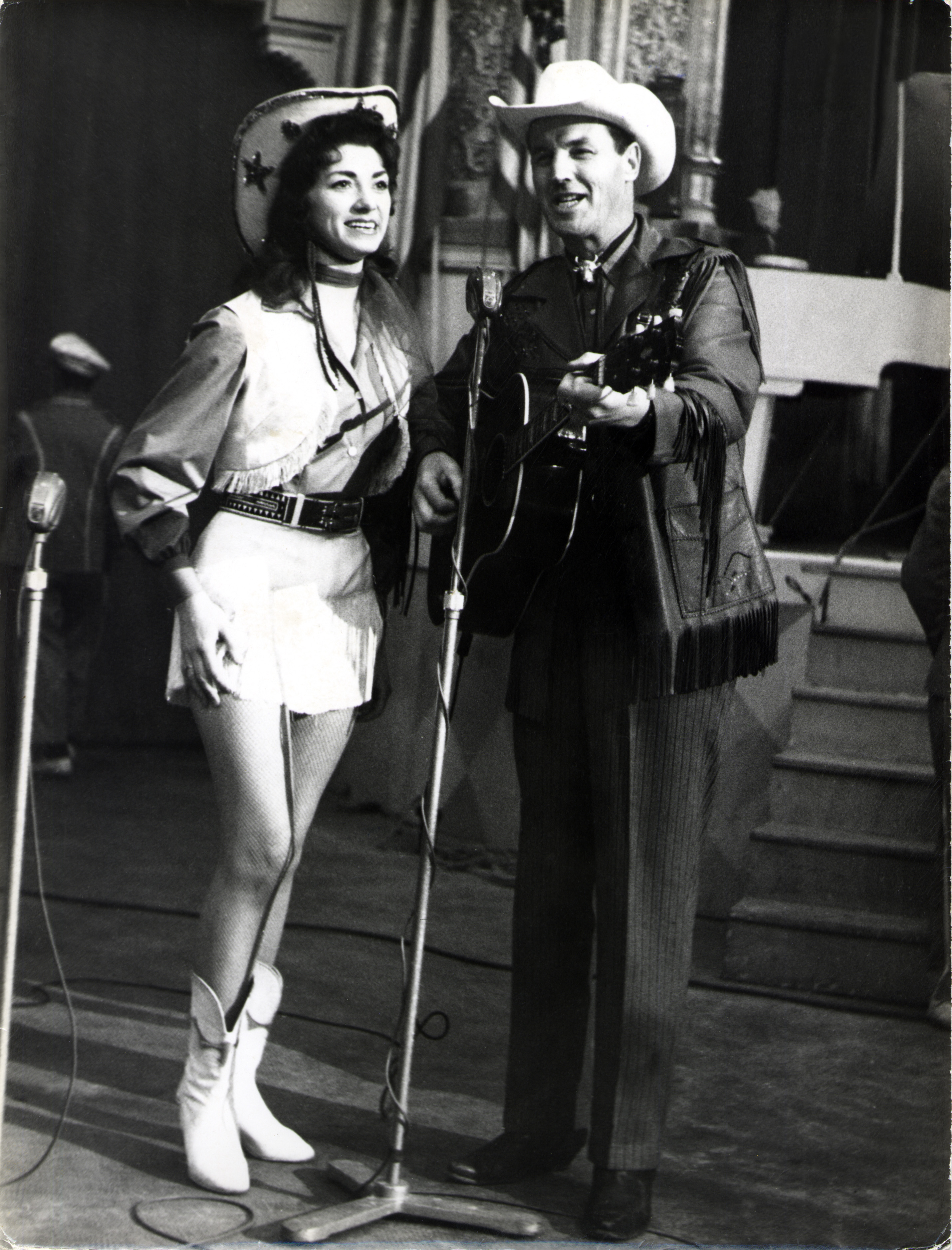 Donn Reynolds and his wife Cindy singing on stage behind a microphone at El Circo Price de Madrid in 1960. They are dressed in cowboy costume while Donn plays a guitar.